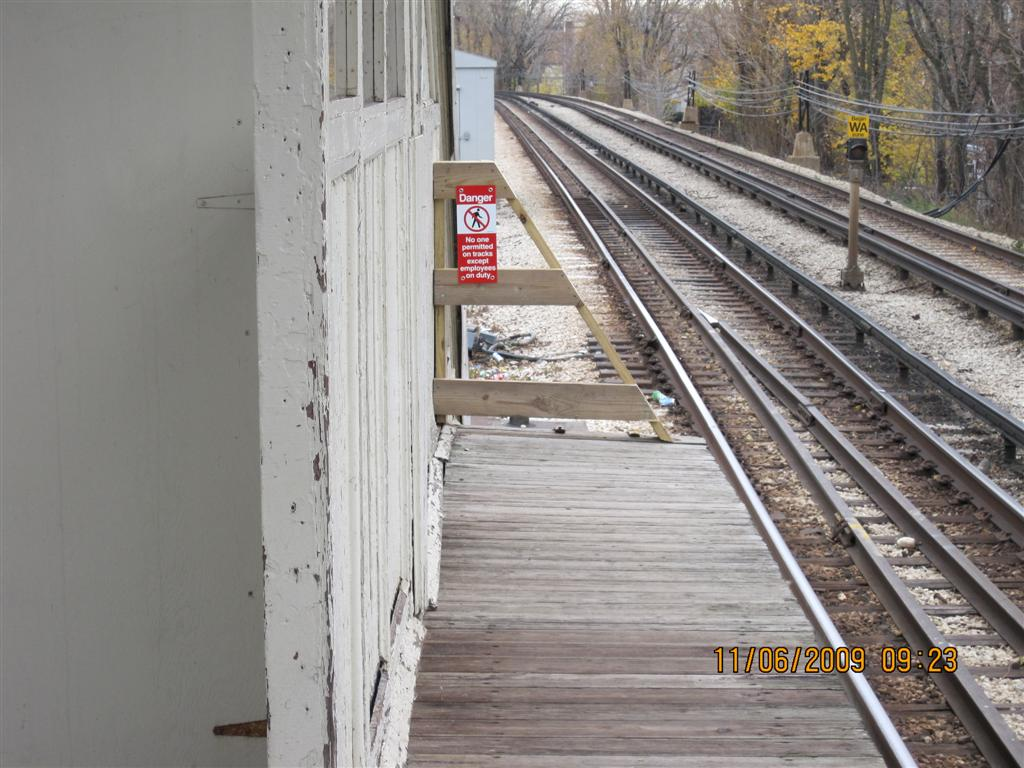 Picture of the Morse CTA station platform in Chicago. This is the south end of the platform, on the west side (southbound), showing the new railing installed the day before.